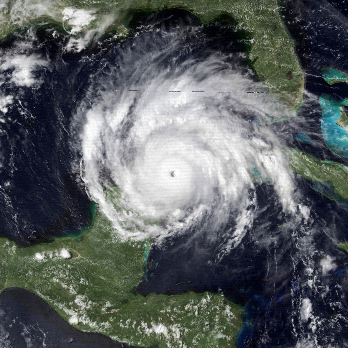 Hurricane Allen at peak intensity northeast of the Yucátan Peninsula on August 7, 1980